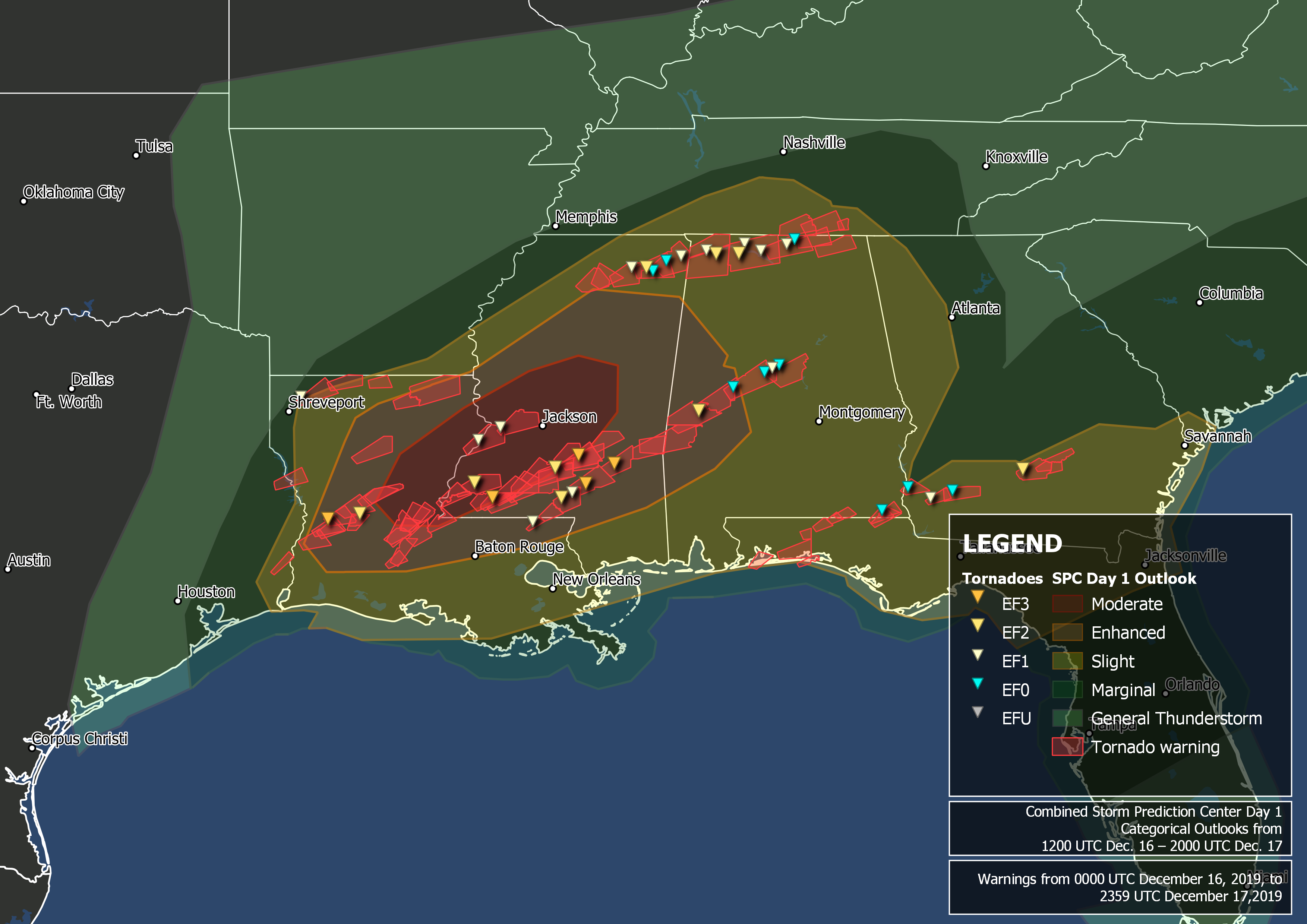 Map of tornado warnings issued by the National Weather Service between December 16 and December 17, 2019, over the southern United States and tornadoes confirmed and surveyed by the National Weather Service overlaid on a GOES-East infrared brightness temperature image from 23:59 UTC on December 16. Map produced in QGIS with border outlines from the United States Census Bureau. National Weather Service warning outlines available from the Iowa Environmental Mesonet and tornado data available from the National Weather Service. GOES-East imagery from the University of Wisconsin-Madison courtesy of NASA/NOAA.